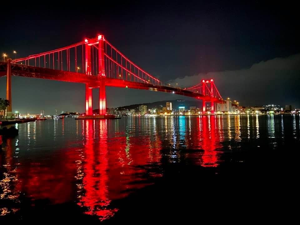 Wakato Ohashi bridge in Kitakyushu city is lit up at night.